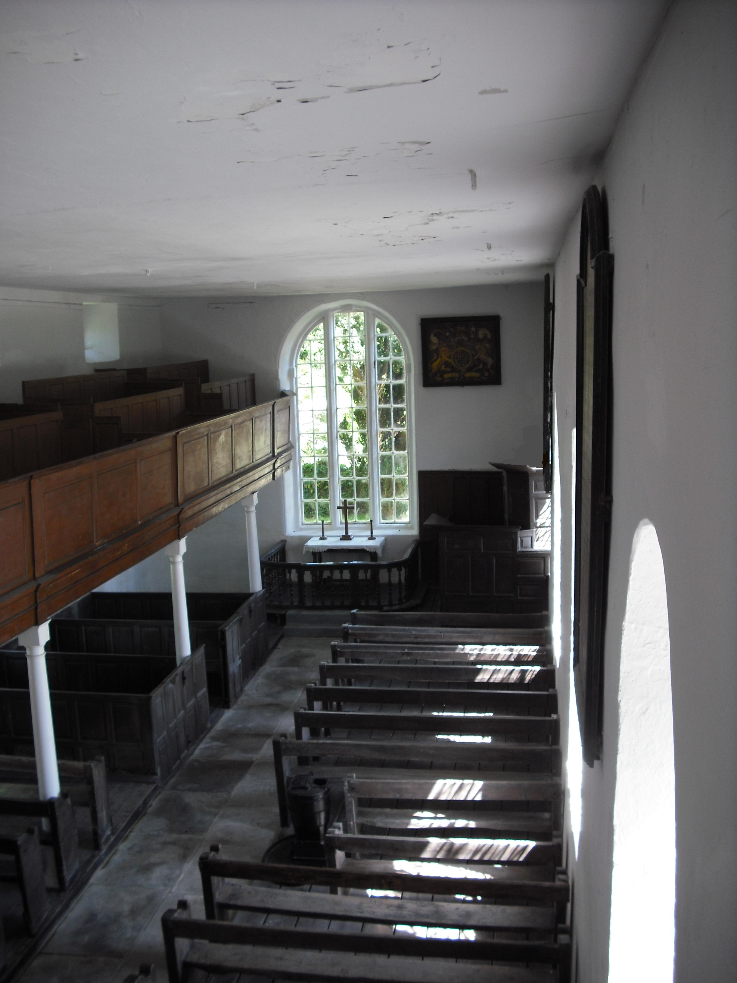 Old St John's, Pilling - east end from gallery